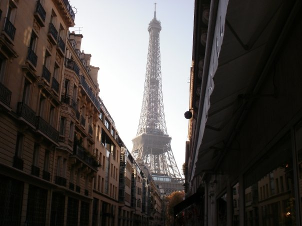 Eiffel Tower as seen from rue de Monttessuy in the 7th arrondissement of Paris.